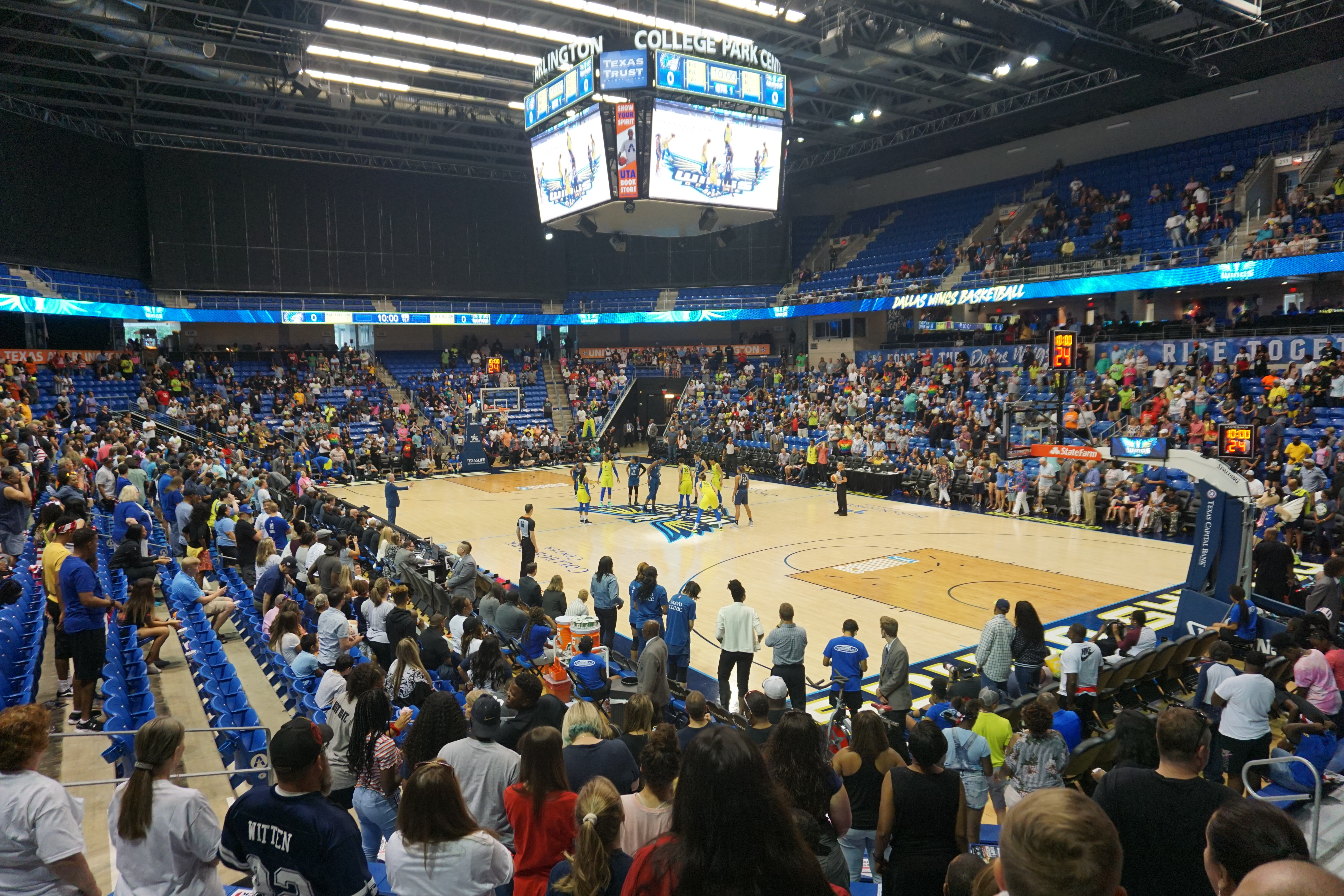 The opening tip of the Minnesota Lynx vs. Dallas Wings basketball game at College Park Center in Arlington, Texas (United States). Dallas won 89–86.